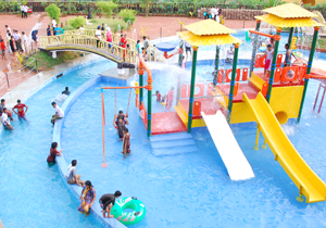 Photo of Vismaya water theme park, Kannur, Kerala